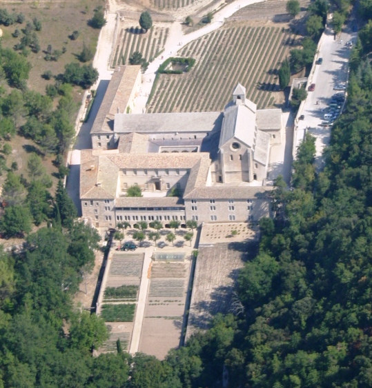 bird view of Senanque abbey, Gordes, France